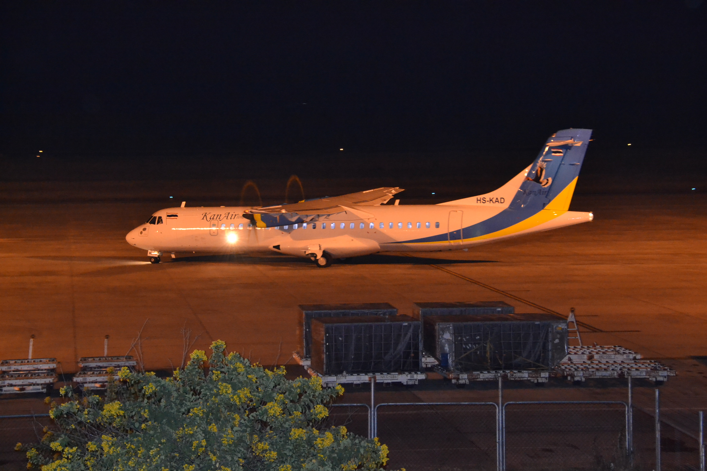 Aerospatiale ATR72 of Kan Air at Khon Kaen-KKC,Thailand,02/12/14.